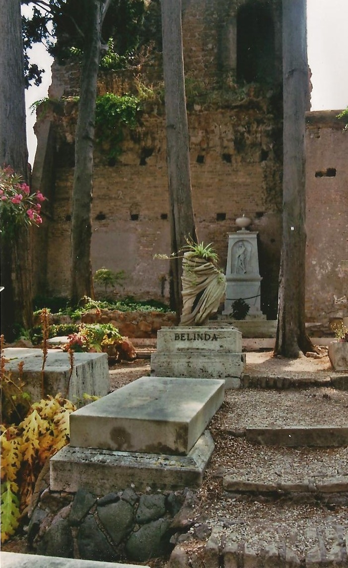 Grave of british actress Belinda Lee